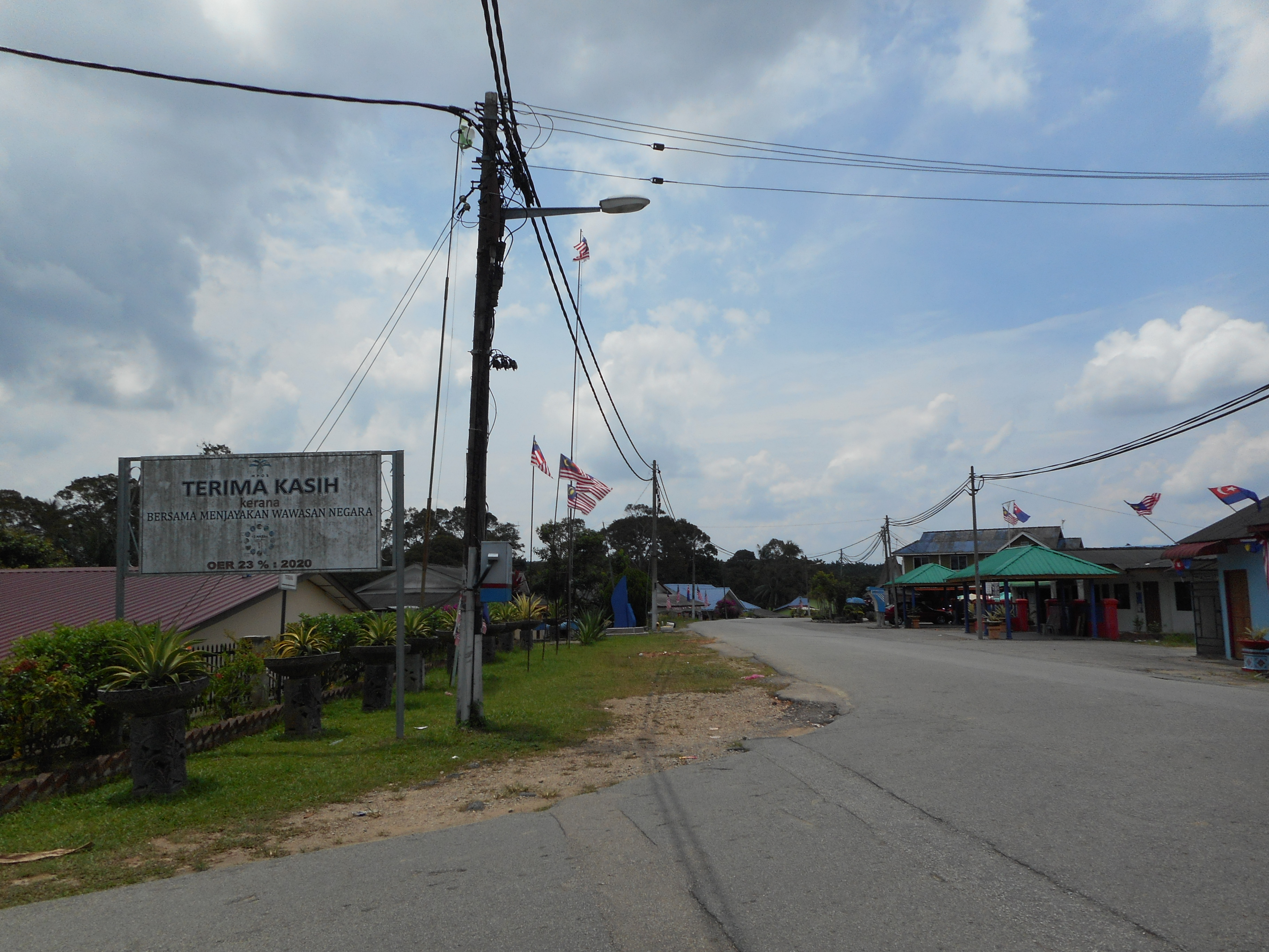 FELDA Pasir Raja, Kulai, Johor, Malaysia